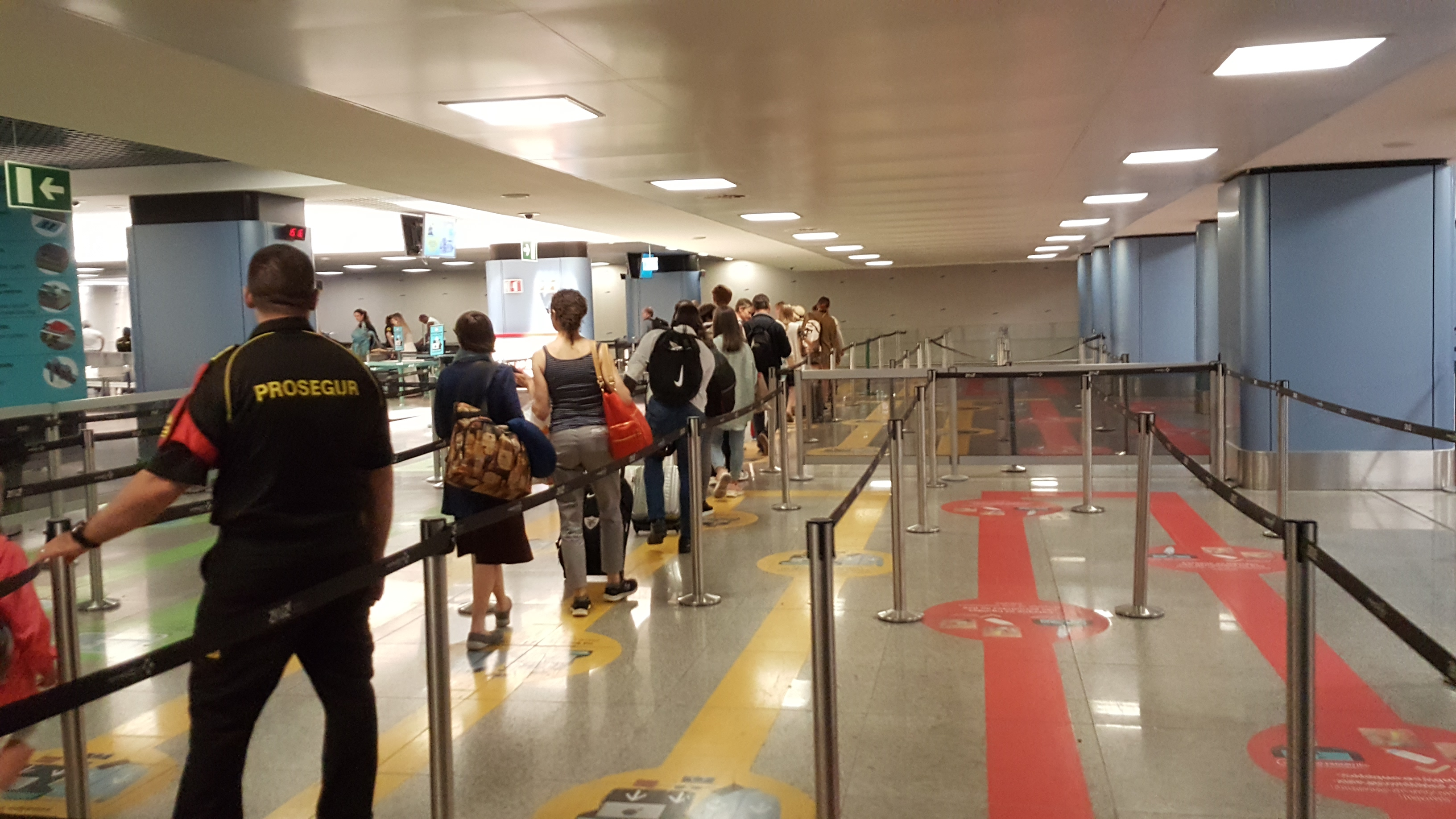 Lisbon Portela Airport: Queue to security gates